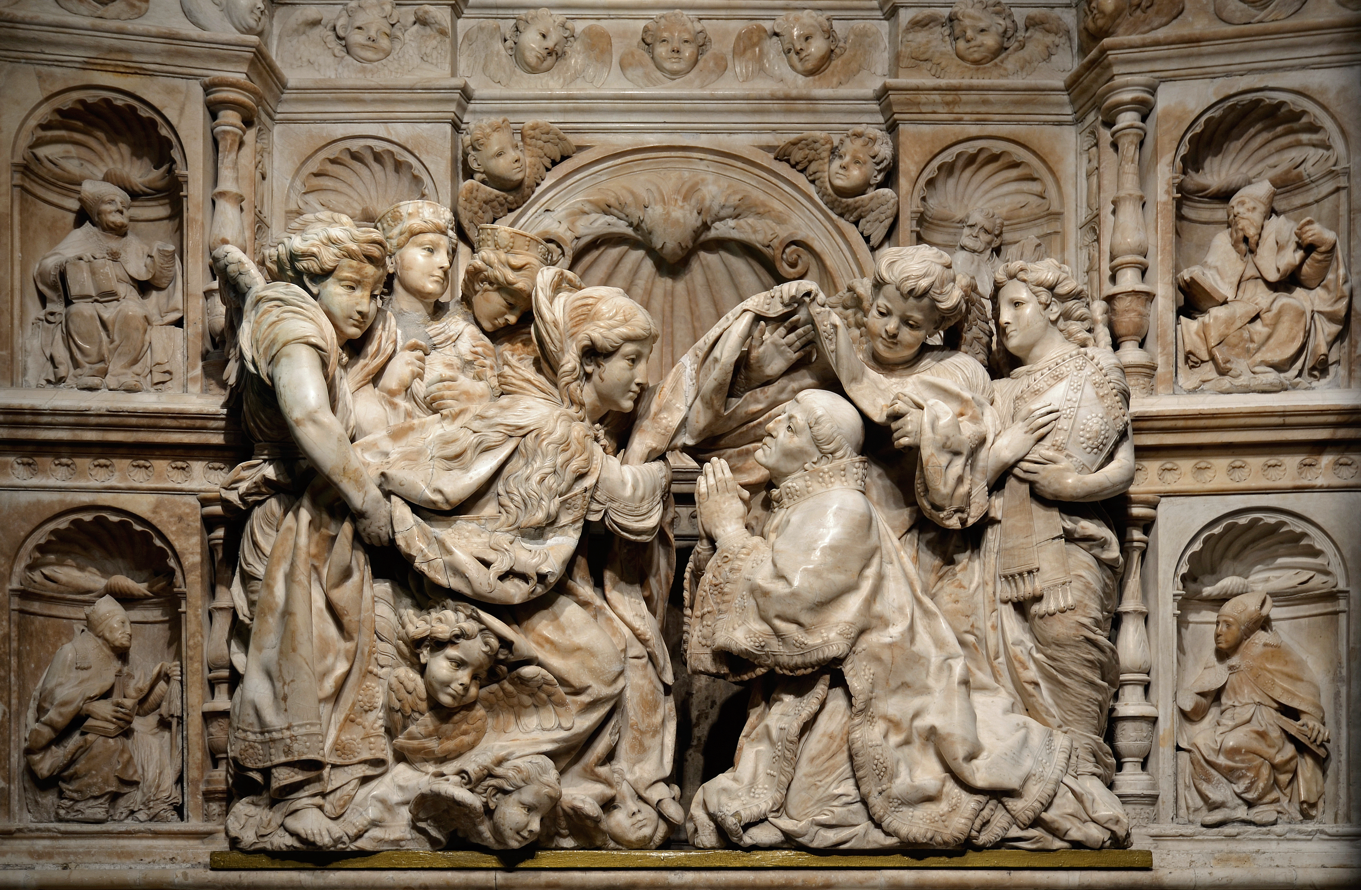 Arrival of Santa Leocadia - Bas-relief in the chapel of the descent of the Virgin - Santa Maria Cathedral - Toledo, Spain